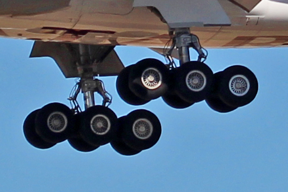 First delivered Airbus A350-1000